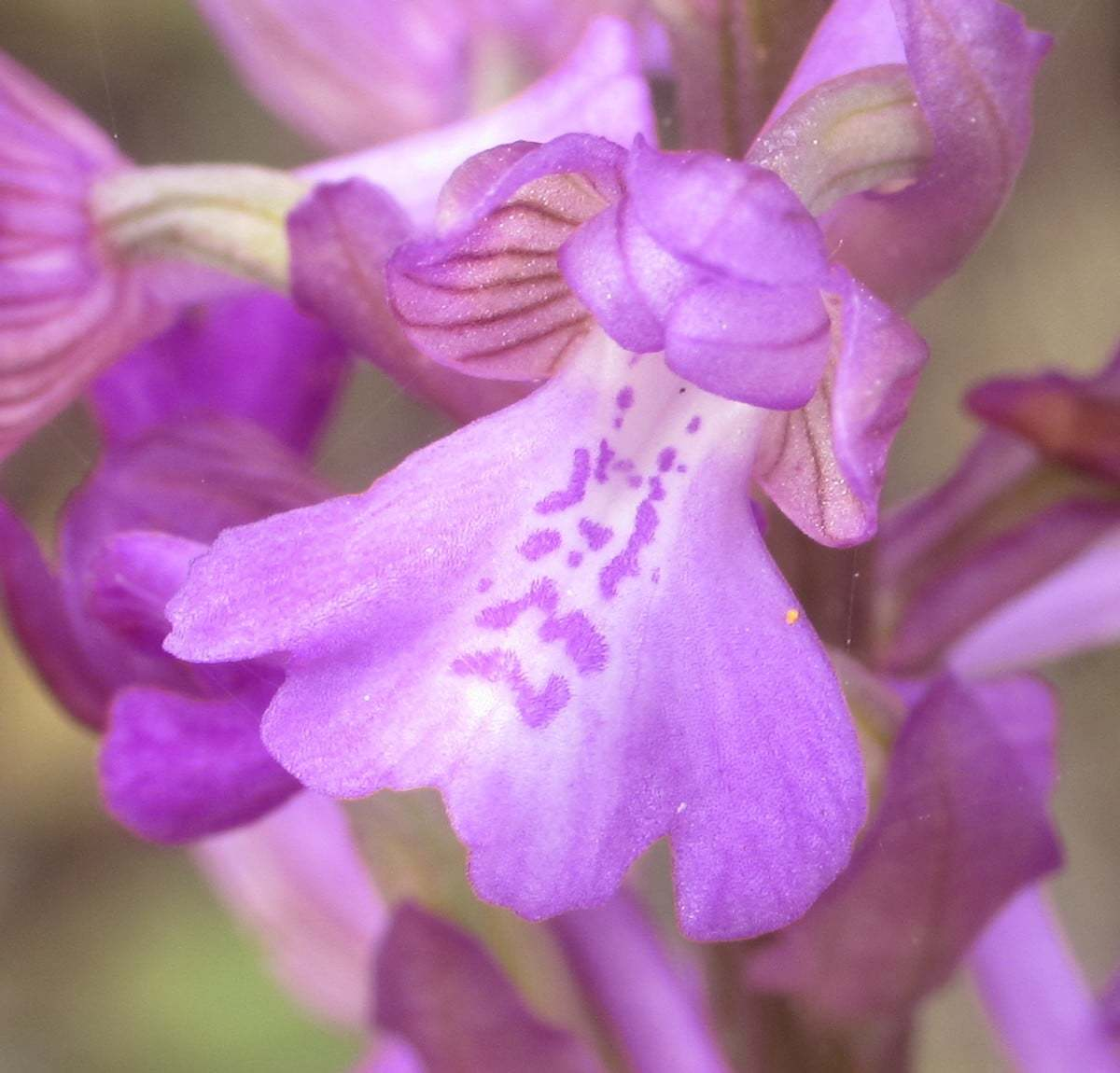 Anacamptis morio labellum